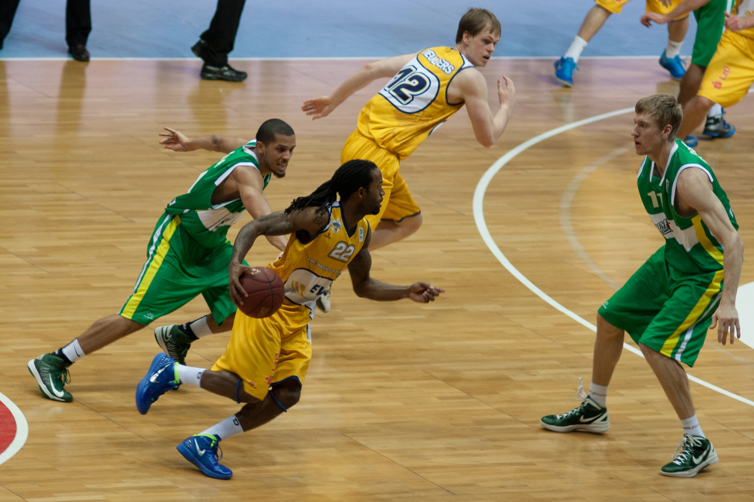 Photo from a game between EWE Baskets Oldenburg and BC Khimik in March 2013.